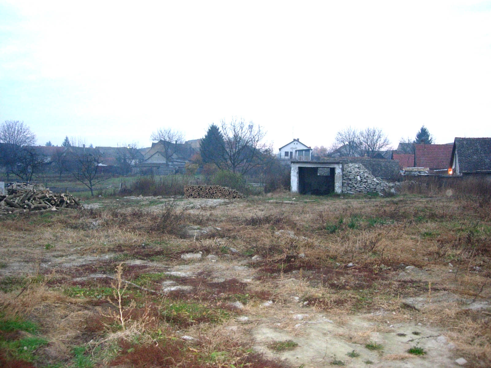 Bezdan. In this place would stay the future Orthodox church.